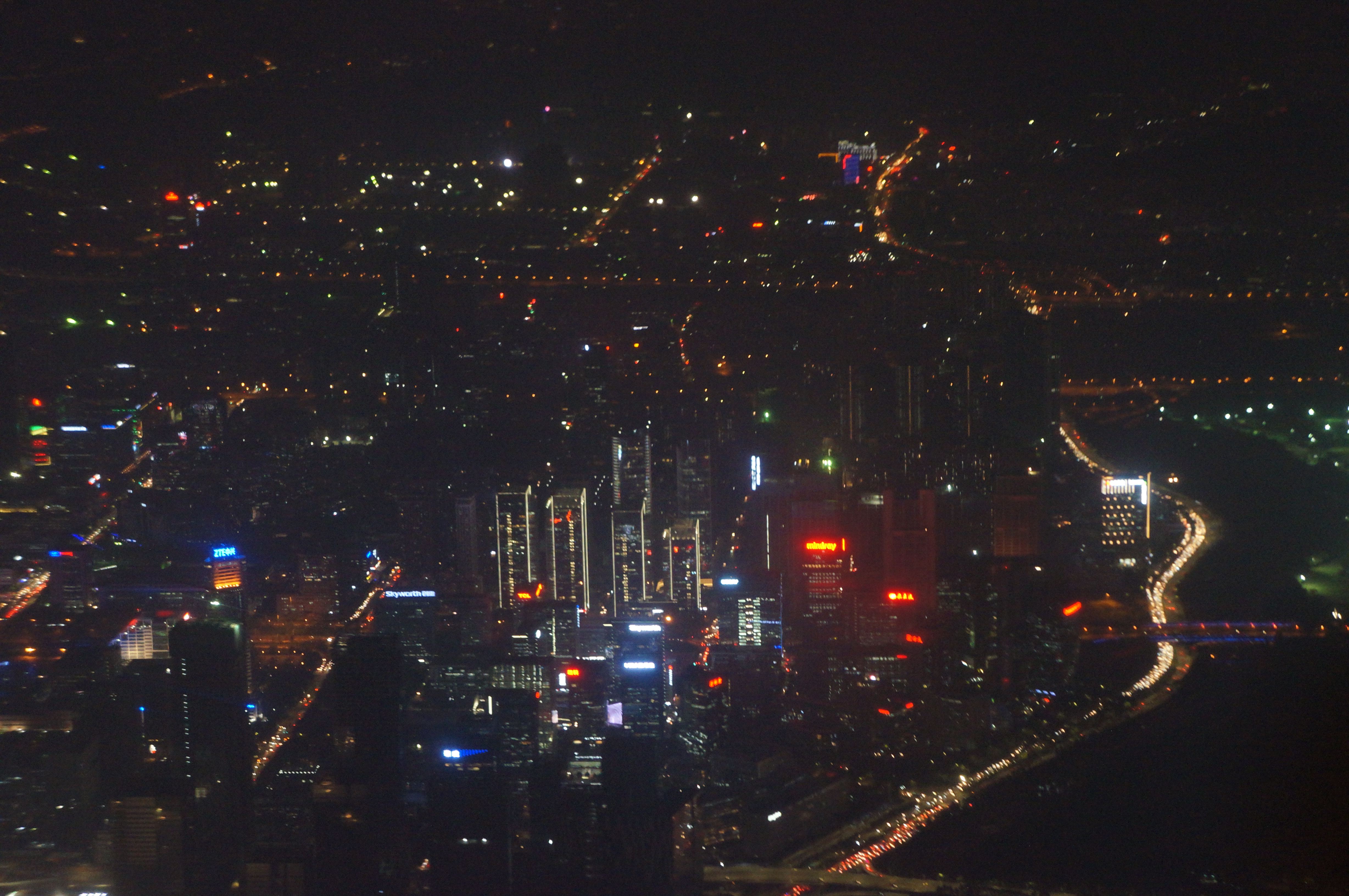 201611 Shenzhen High-Tech Park, Nanshan District, taken from HO1201